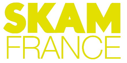 Title of SKAM FRANCE